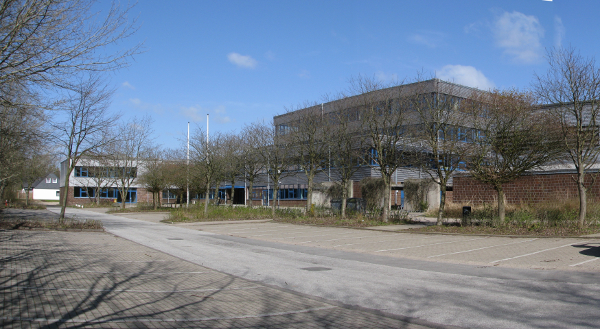 German secondary school Hermann-Tast-Schule in german city of Husum